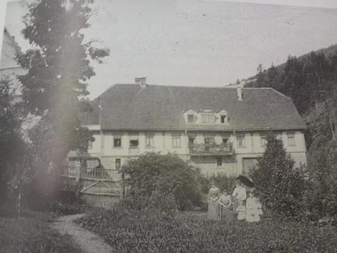 Gut Lauterbad